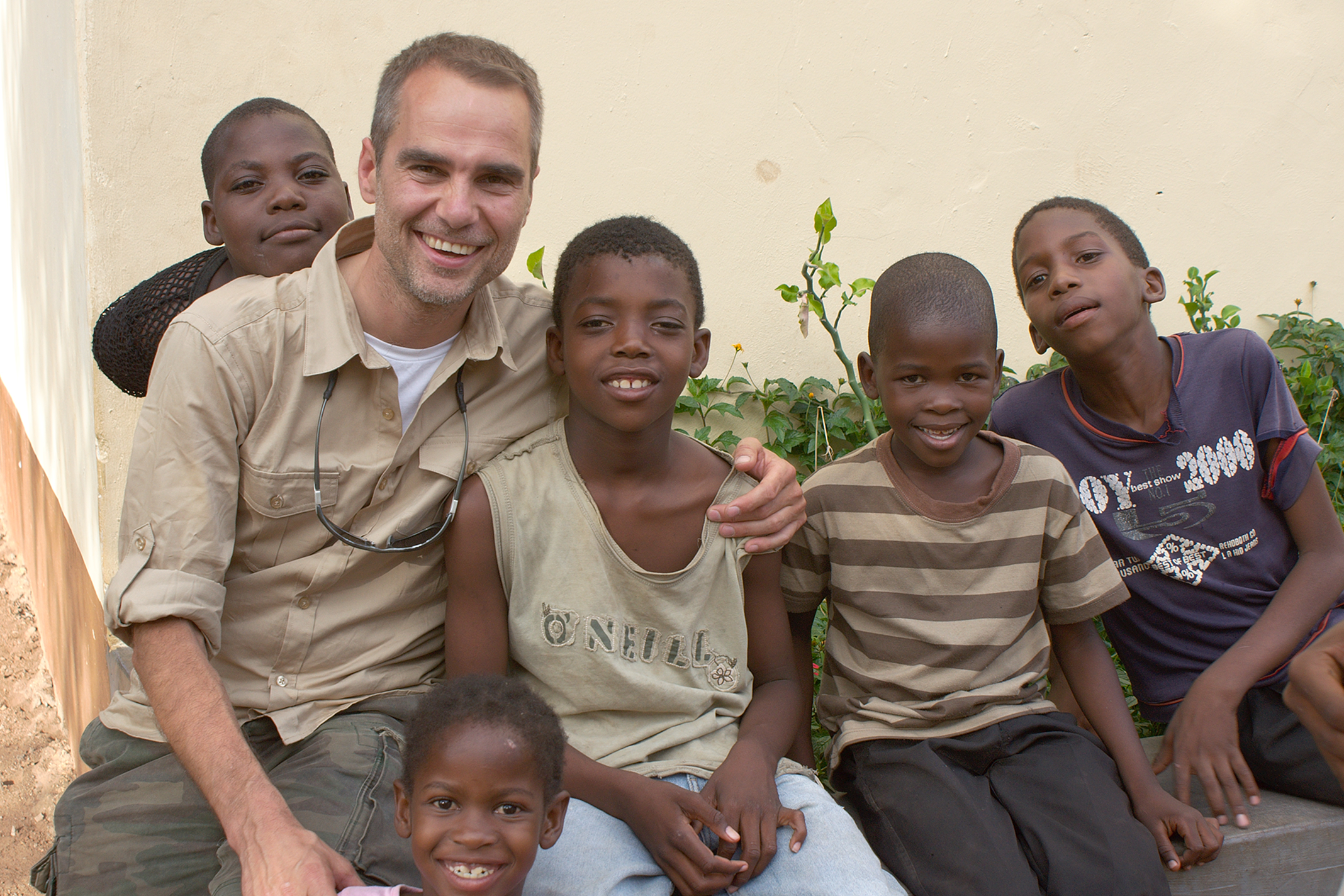 Lars Gorschlüter with children